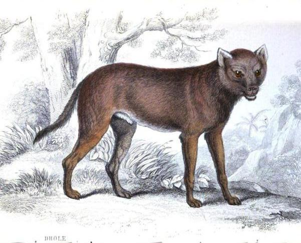 A common dhole